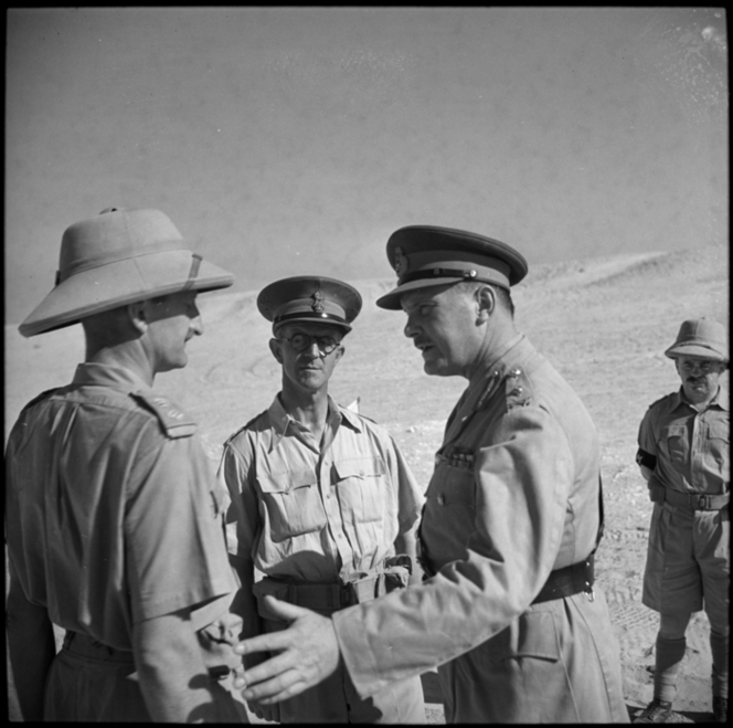 Major General Bernard Freyberg, arriving to conduct a review of the Mechanized Brigade in Egypt, is greeted by Lieutenant Colonel C Shuttleworth and Brigadier Harold Barrowclough. Taken in September 1941 by an official photographer. Department of Internal Affairs. War History Branch :Photographs relating to World War 1914-1918, World War 1939-1945, occupation of Japan, Korean War, and Malayan Emergency. Ref: DA-01491-F. Alexander Turnbull Library, Wellington, New Zealand.